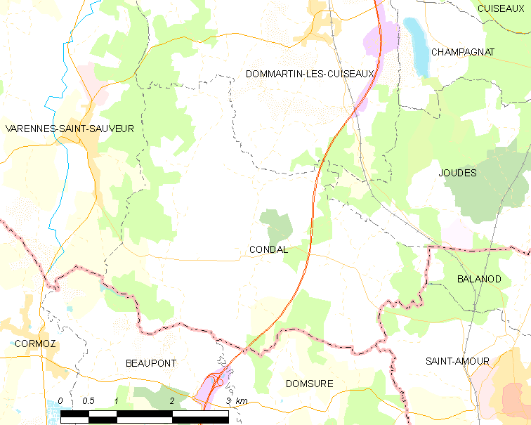 Map of French municipality